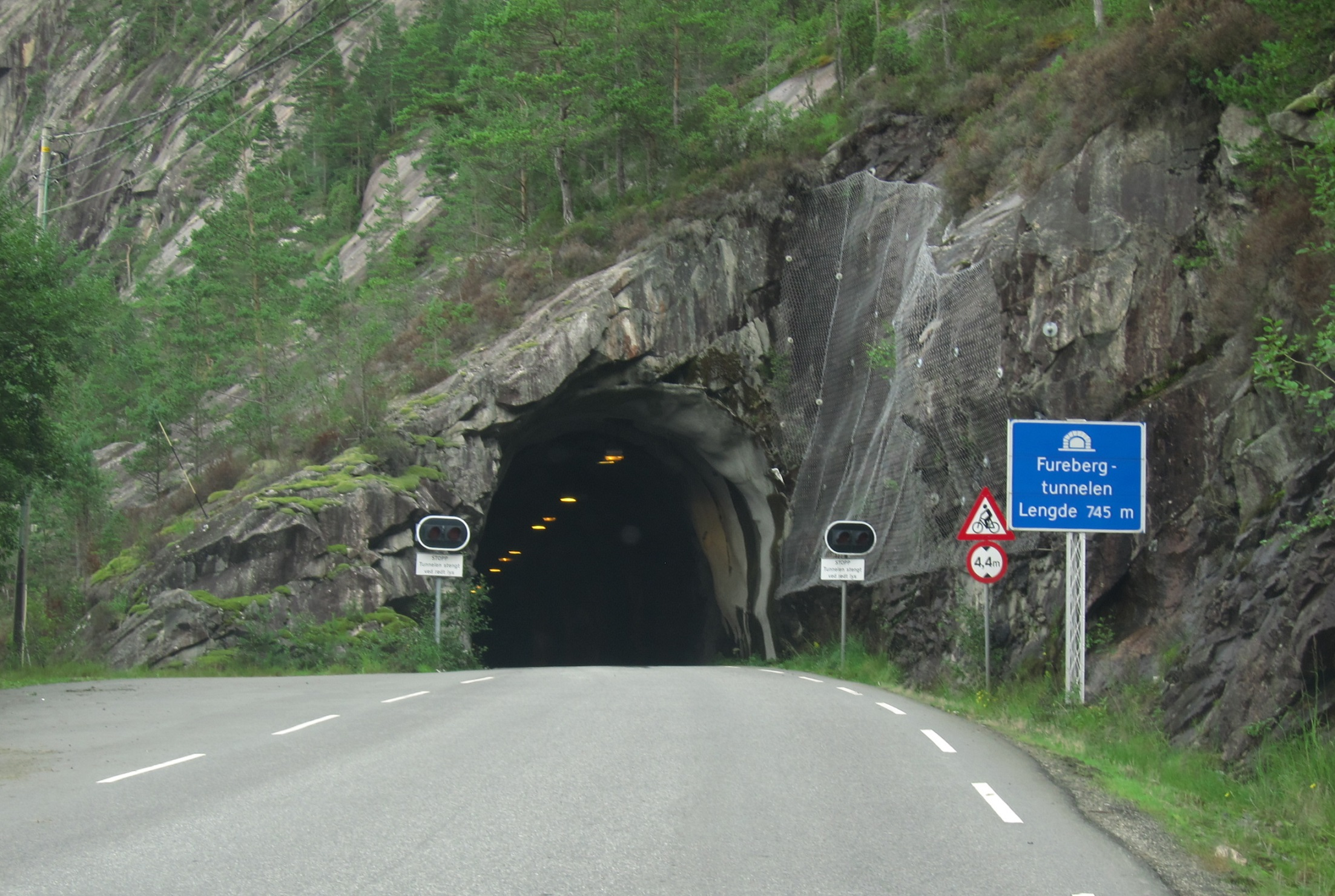 Furuberg tunnel road 551 between Ænes and Sundal in Hordaland Norway. Western mouth (Ænes side).